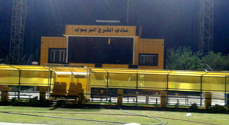 The new Skybox of Al-Karkh Stadium at night.